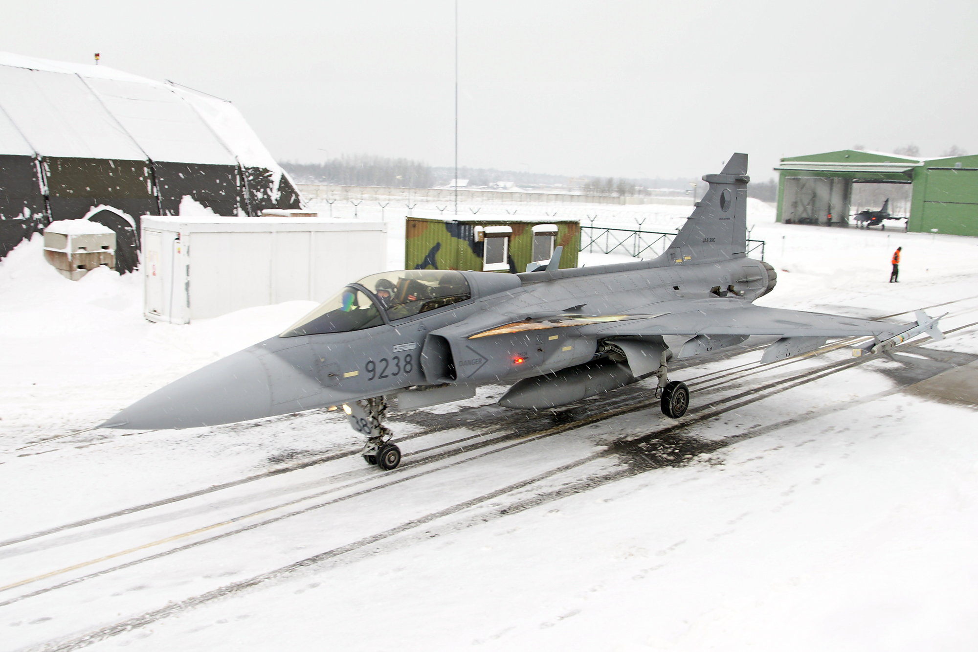 Czech Air Force Saab JAS-39 at Šiauliai Airport